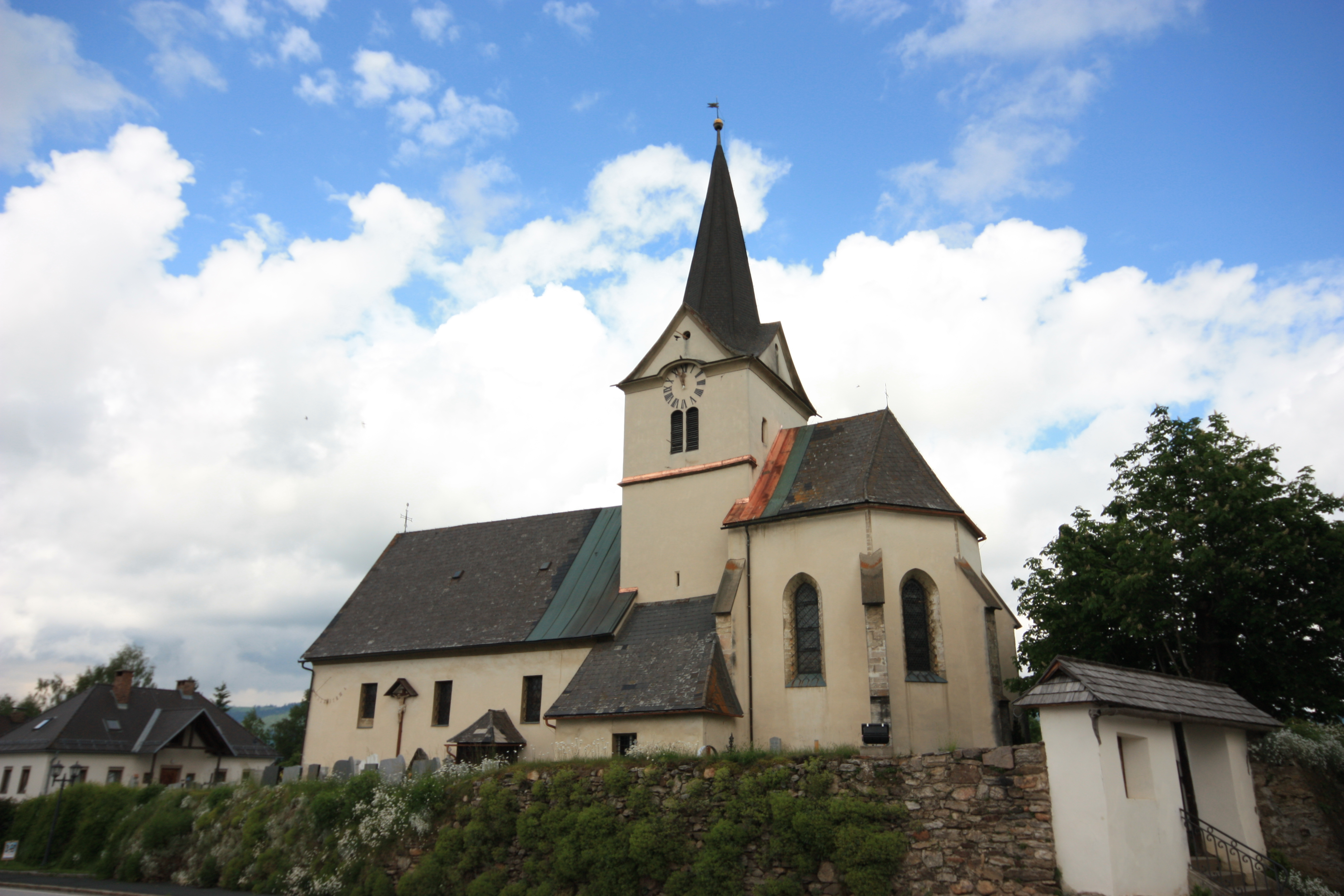 Parish-church Saint Nikolaus in Preitenegg, Carinthia